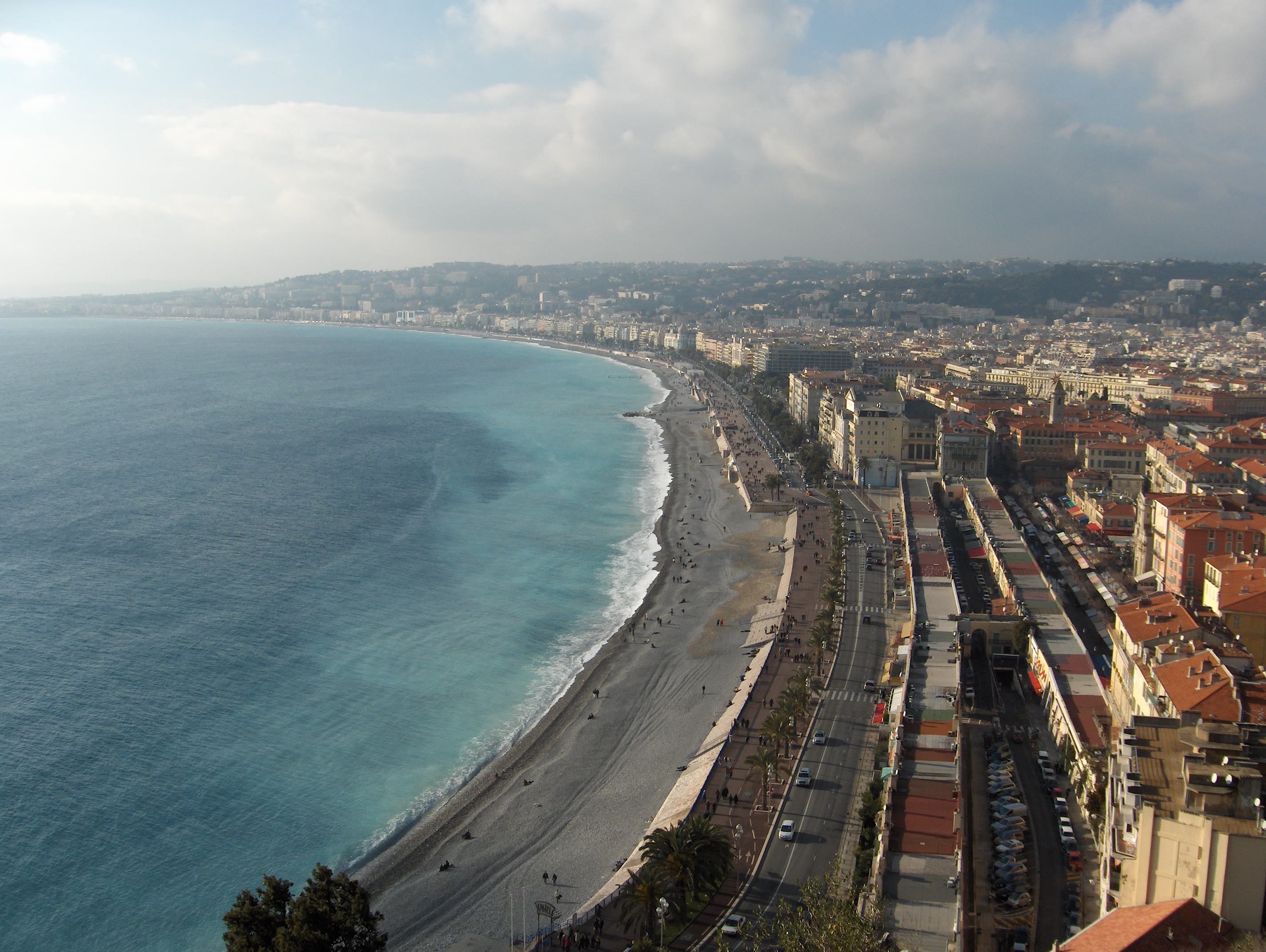 The sea and the old town in Nice (France)